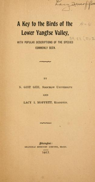 Cover of Bird Book authored by Lacy Moffett